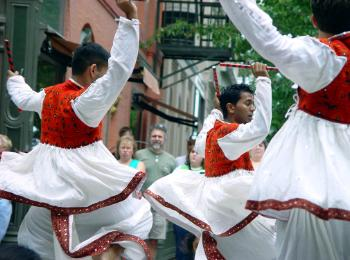 Cornell Bhangra